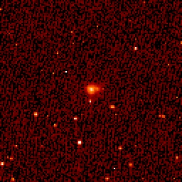 Hubble image of the trans-Neptunian object 1998 SM165 and its satellite, taken in 2001.